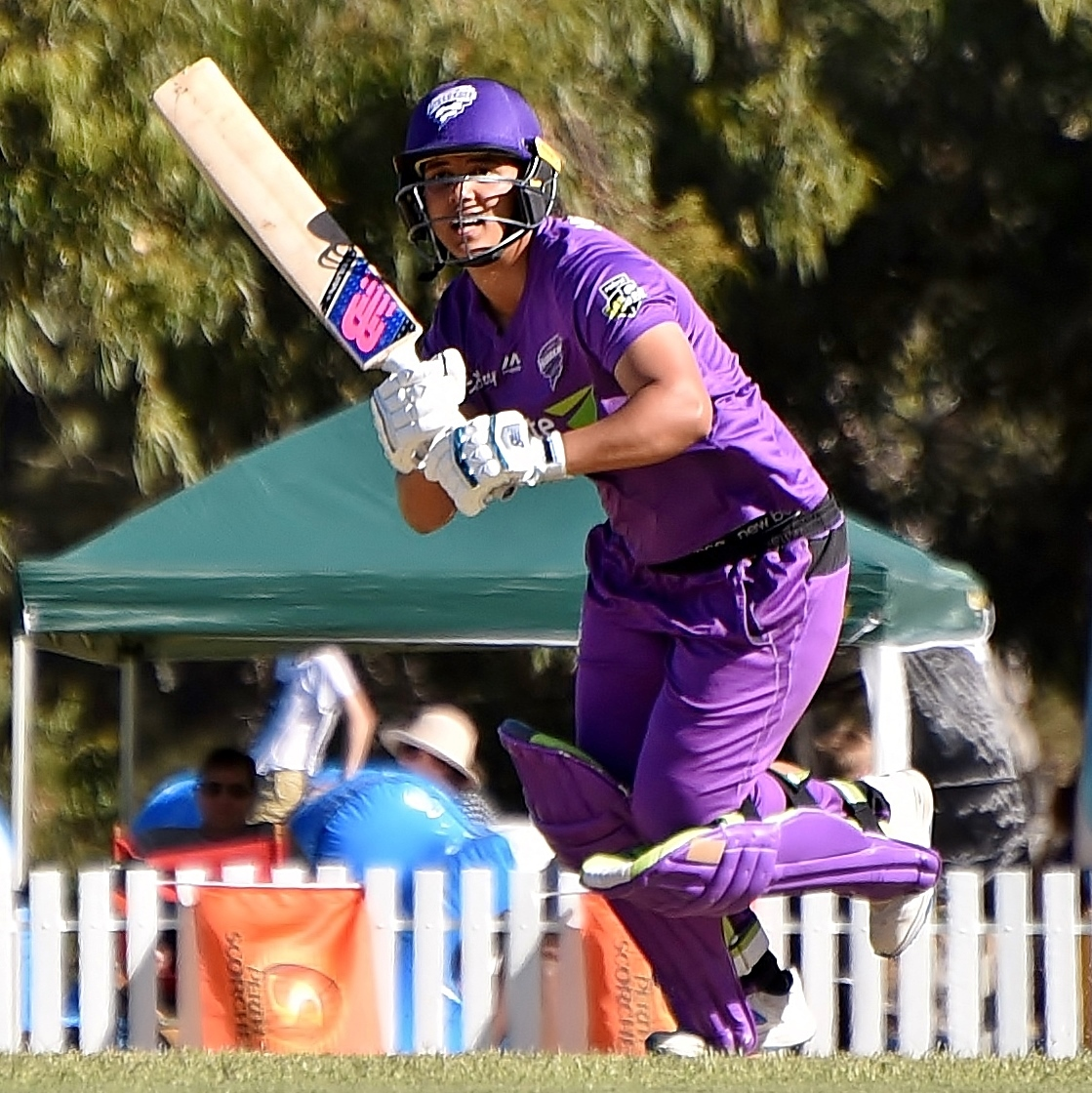 Hobart Hurricanes all-rounder Chloe Tryon batting against the Perth Scorchers, in a WBBL match at Lilac Hill Park in Perth